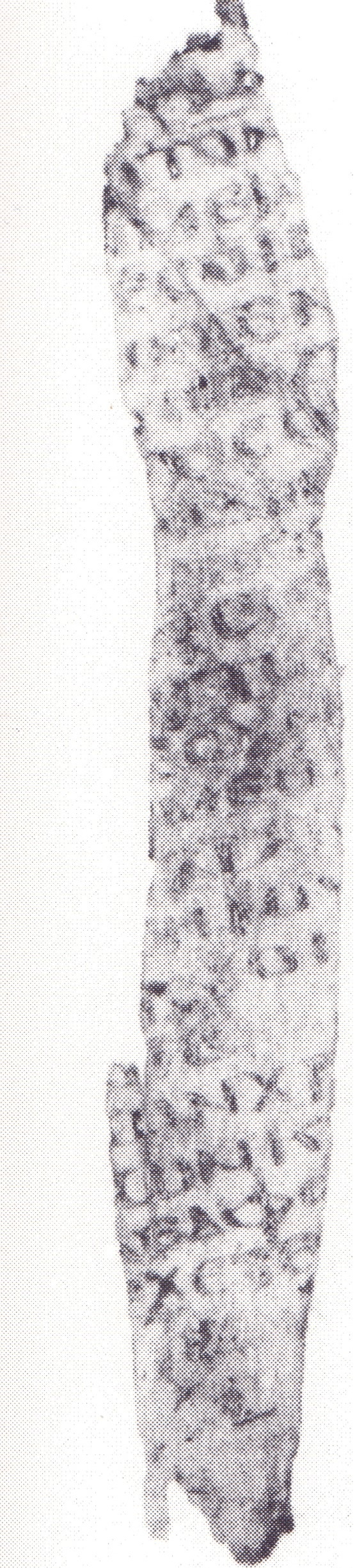 Uncial 0226 recto manuscript of the New Testament (1. Tes 4:16-5:5)